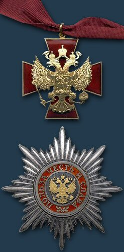 Russian Federation, Order Of Service To The Fatherland 2nd class. Established by Decree No. 442 of 2 March 1994. Amended by Decree No. 19 of 6 January 1999. Awarded for "outstanding contributions to the state, labour achievements and significant contributions to the defence of the State". Crossed golden swords are worn on the suspension when awarded for distinction in combat.